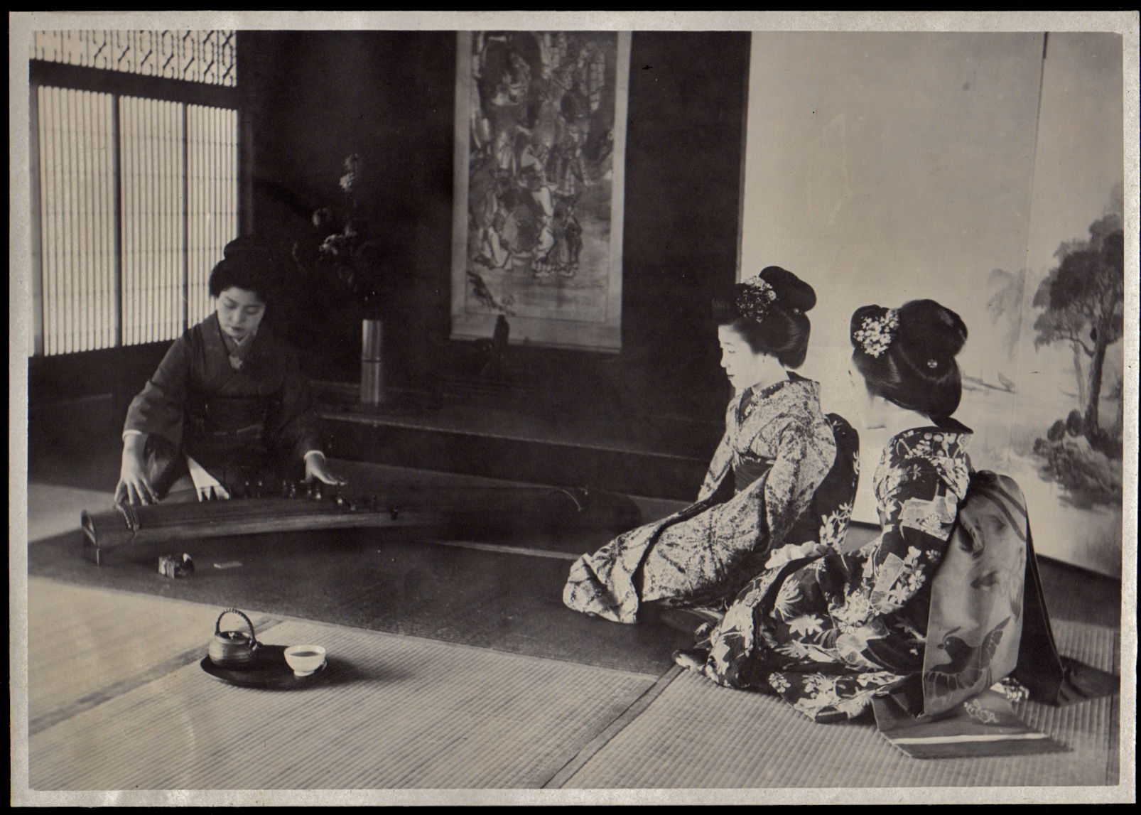 A woman teaching two geisha apprentices koto lesson.